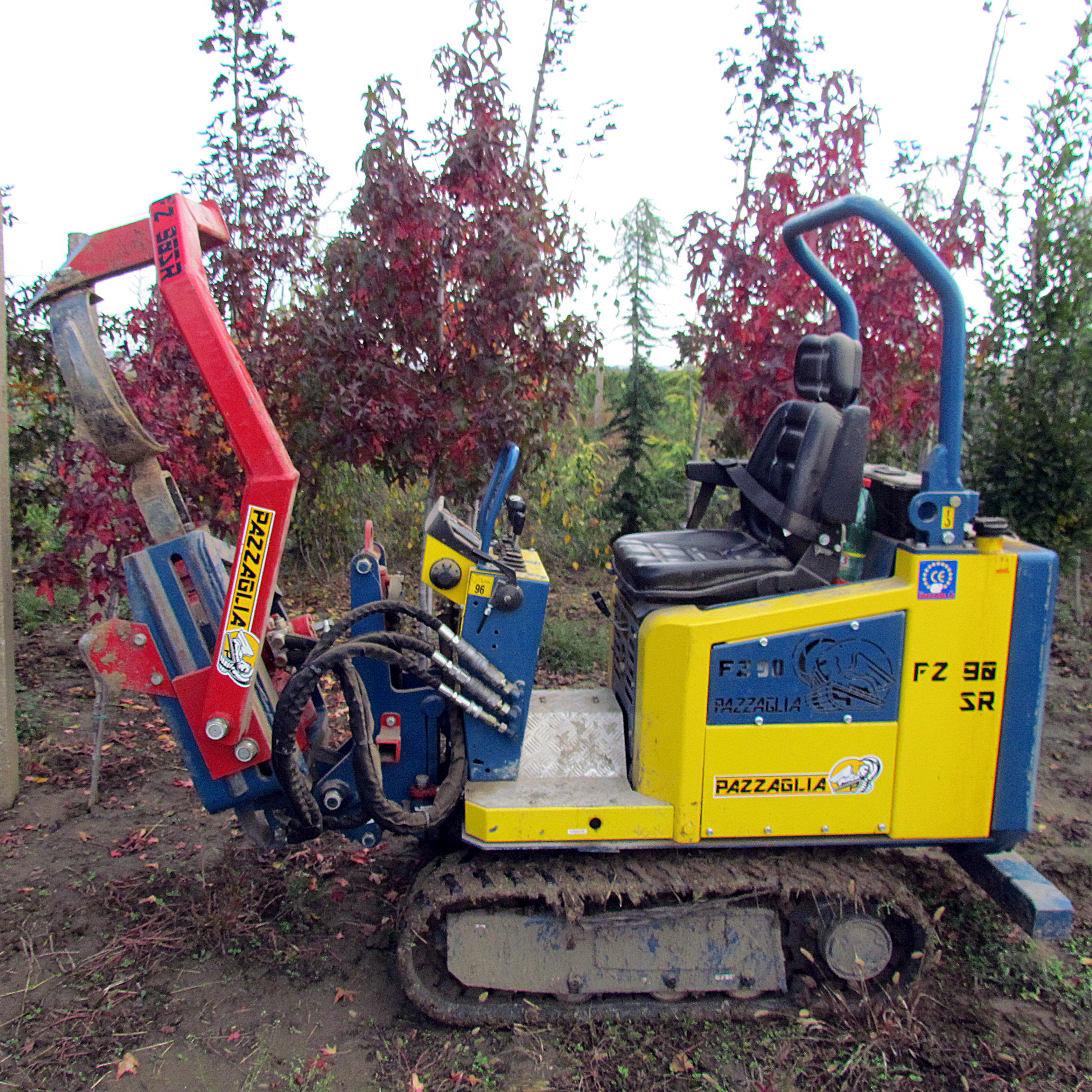 Tree digger